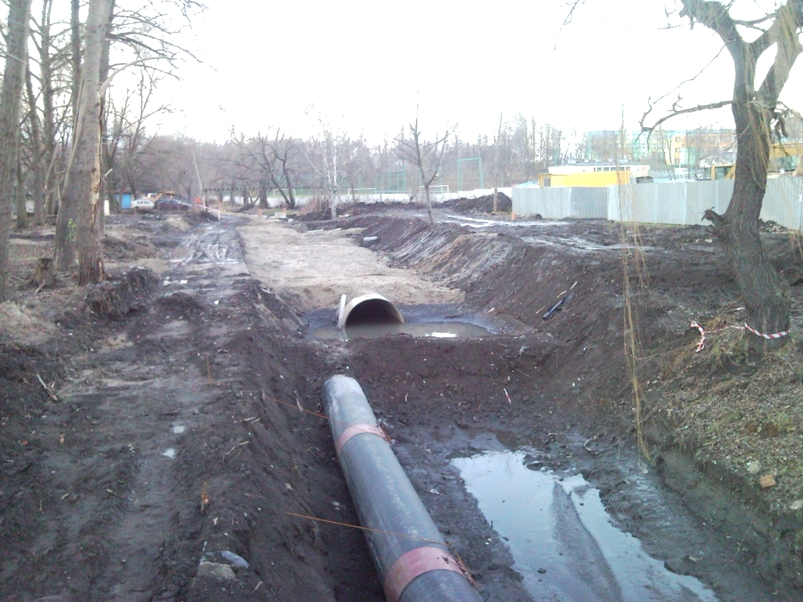 Rawa river, covering process, Chorzów, Upper Silesia